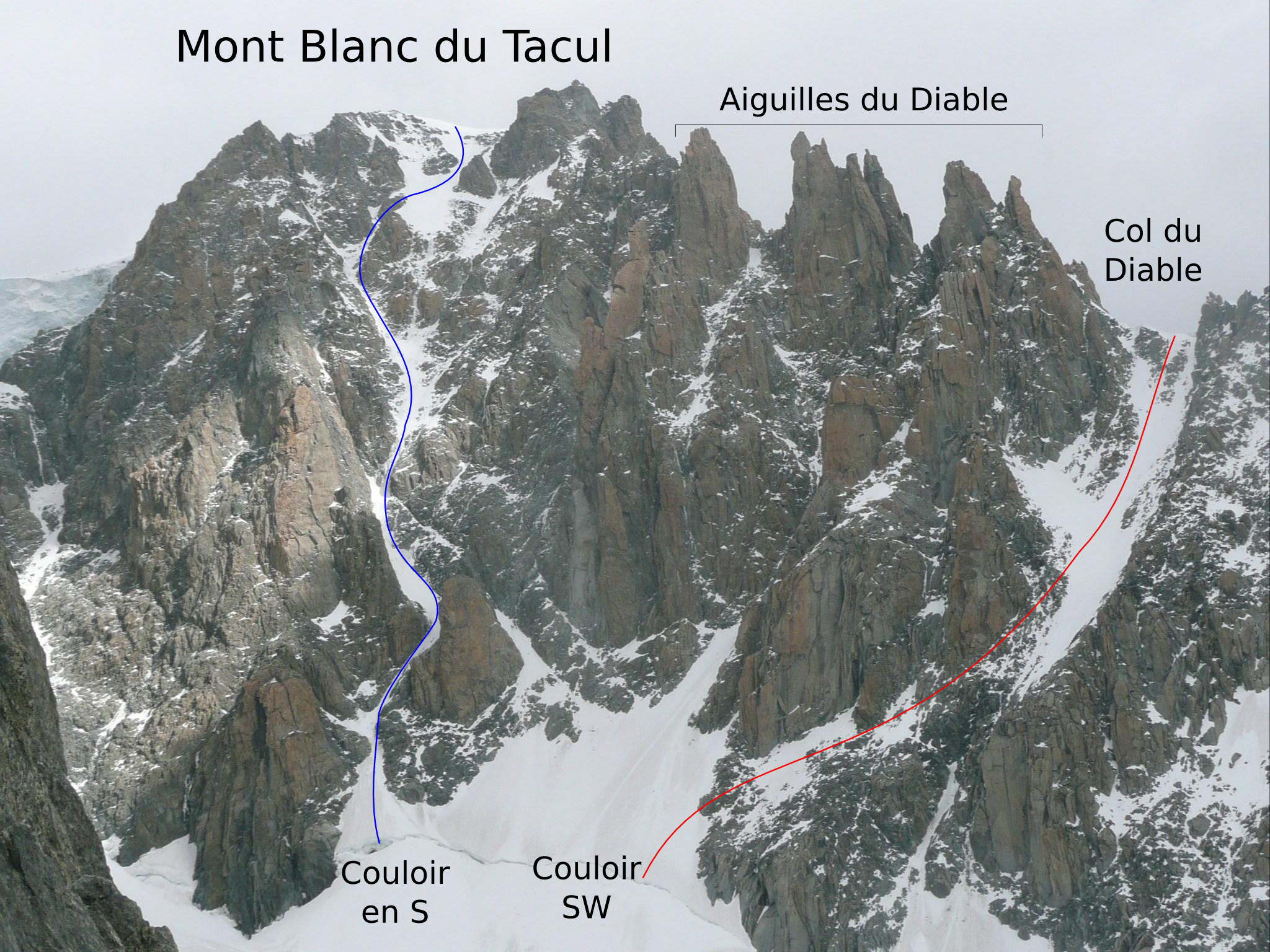 Mont Blanc du Tacul - South face - Routes